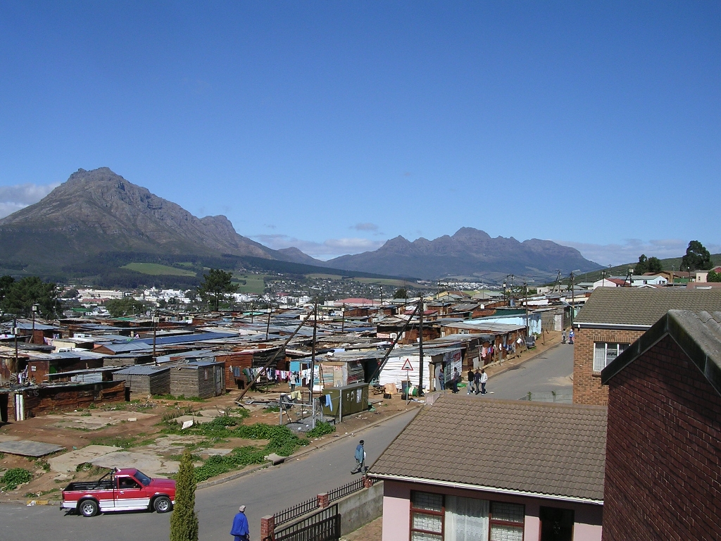 View on Kayamandi Township near Stellenbosch, South Africa. Picture taken by my own in September 2006.